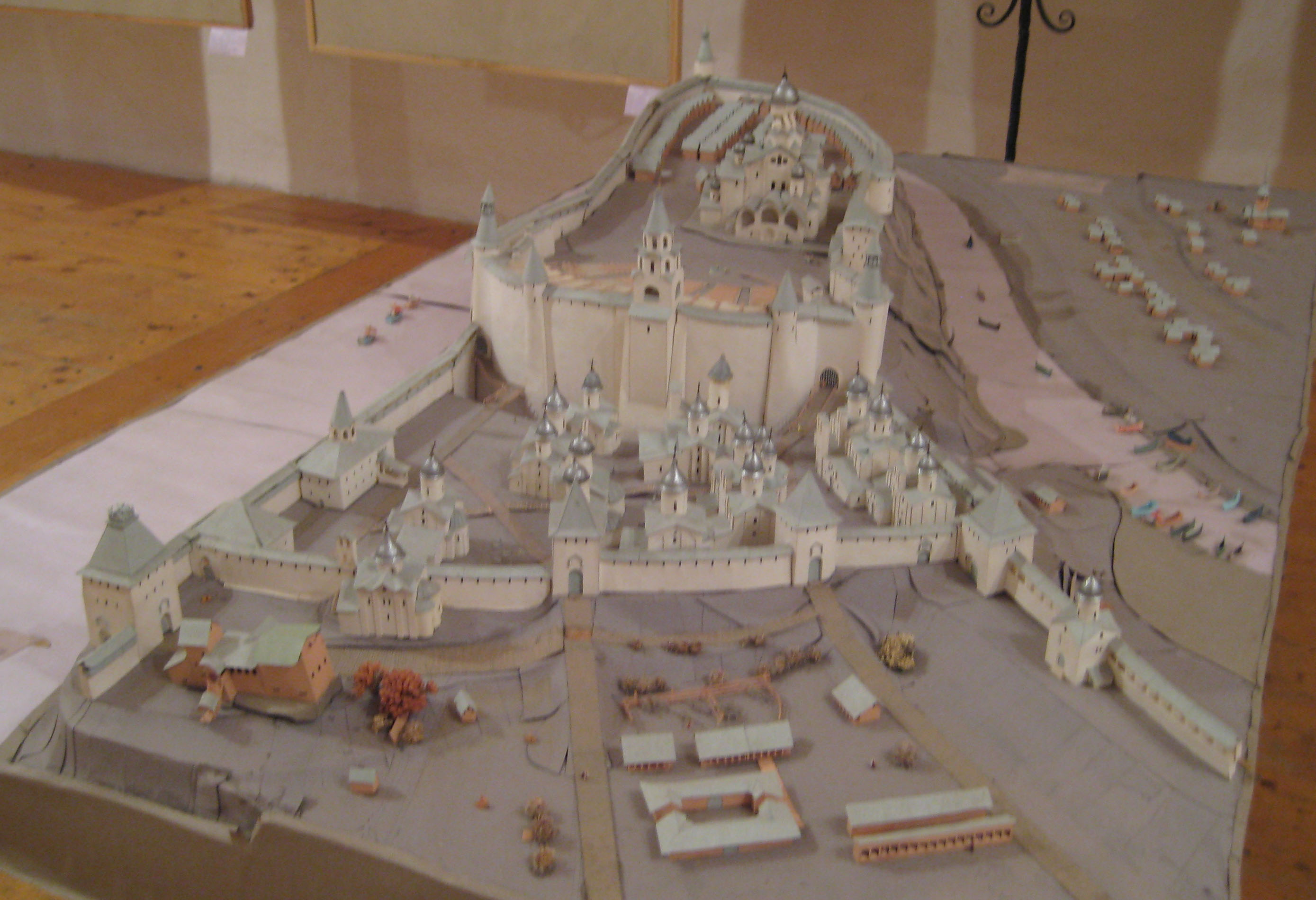 A model of ancient Pskov with preceding building of the cathedral